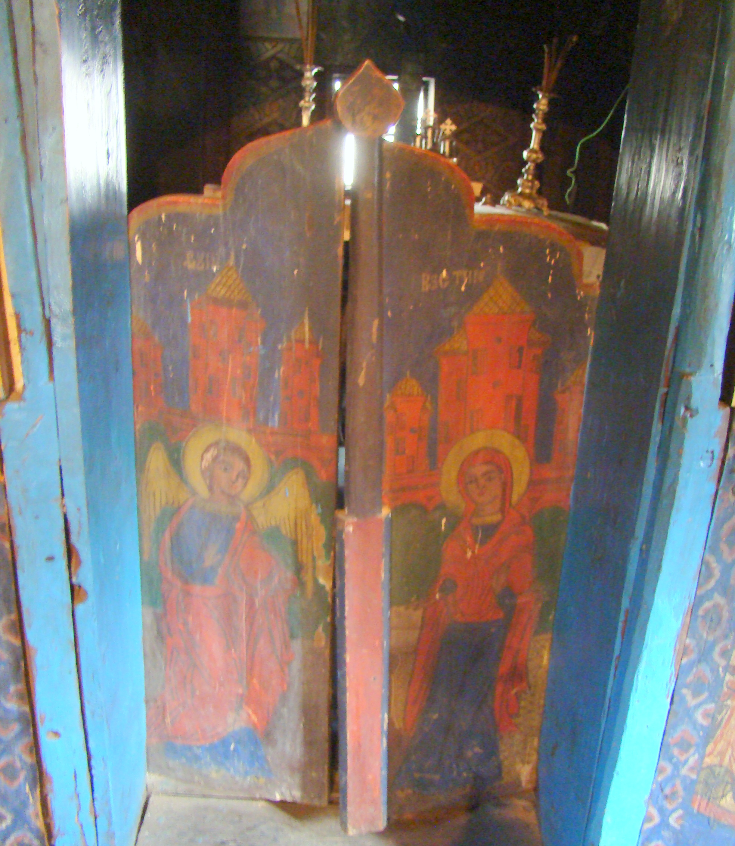 Wooden church in Piscuri, Gorj county, Romania